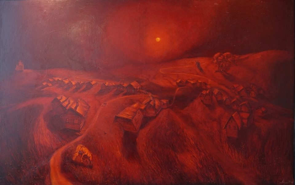 Vladimir Lisunov. Moon fire, 1980. Canvas, oil. 130x200